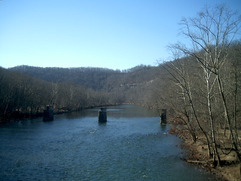 Abandoned C&O bridge pillars that was part of the old Second Creek Tunnel on part of the Greenbrier River, between the town of Ronceverte and the unincorporated community of Fort Spring in the U.S. state of West Virginia.